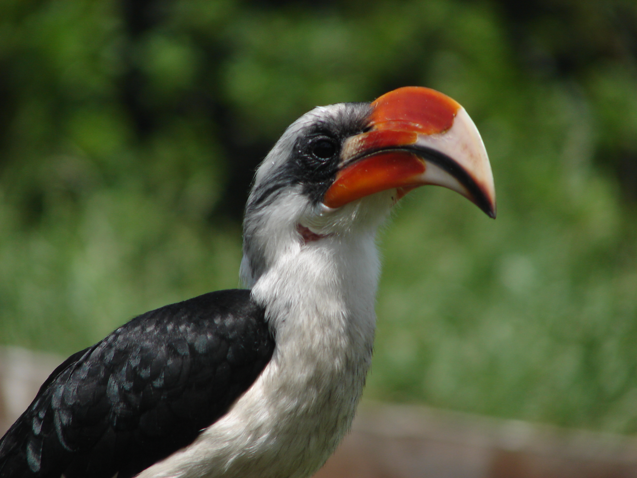 Images from London Zoo. Location: NW1 4RY